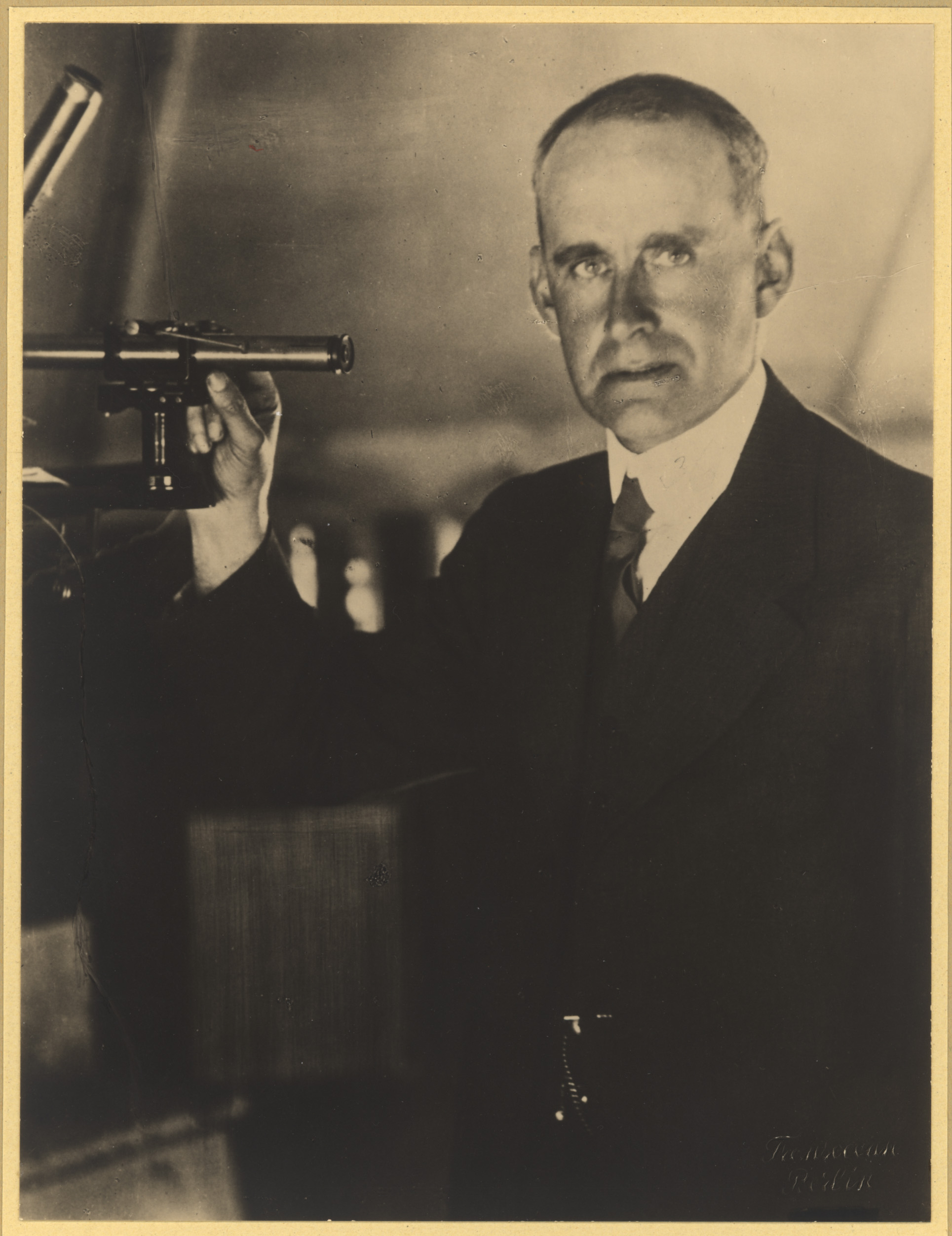 Creator/Photographer: Transocean (Photographic company, Berlin) Medium: Medium unknown Dimensions: 15.9 cm x 12.2 cm Date: Prior to 1944 Repository: Smithsonian Institution Libraries Collection: Scientific Identity: Portraits from the Dibner Library of the History of Science and Technology - As a supplement to the Dibner Library for the History of Science and Technology's collection of written works by scientists, engineers, natural philosophers, and inventors, the library also has a collection of thousands of portraits of these individuals. The portraits come in a variety of formats: drawings, woodcuts, engravings, paintings, and photographs, all collected by donor Bern Dibner. Presented here are a few photos from the collection, from the late 19th and early 20th century. Accession number: SIL14-E1-01